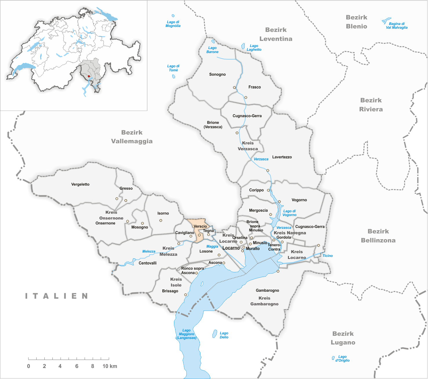 Municipality Verscio Artist: Tschubby